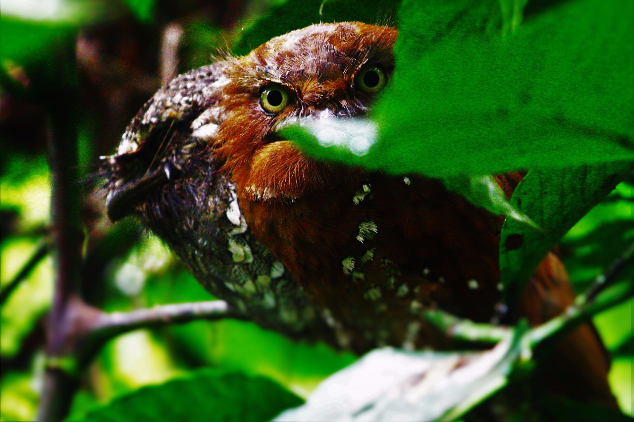 Captured in Sinharaja Rainforest by Senuja Anusara.